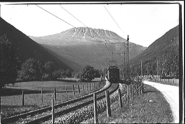 Rjukanbanen no. 1 or 3, (later NSB El 7) on Vestfjorddalen on Rjukanbanen, Tinn, Norway.